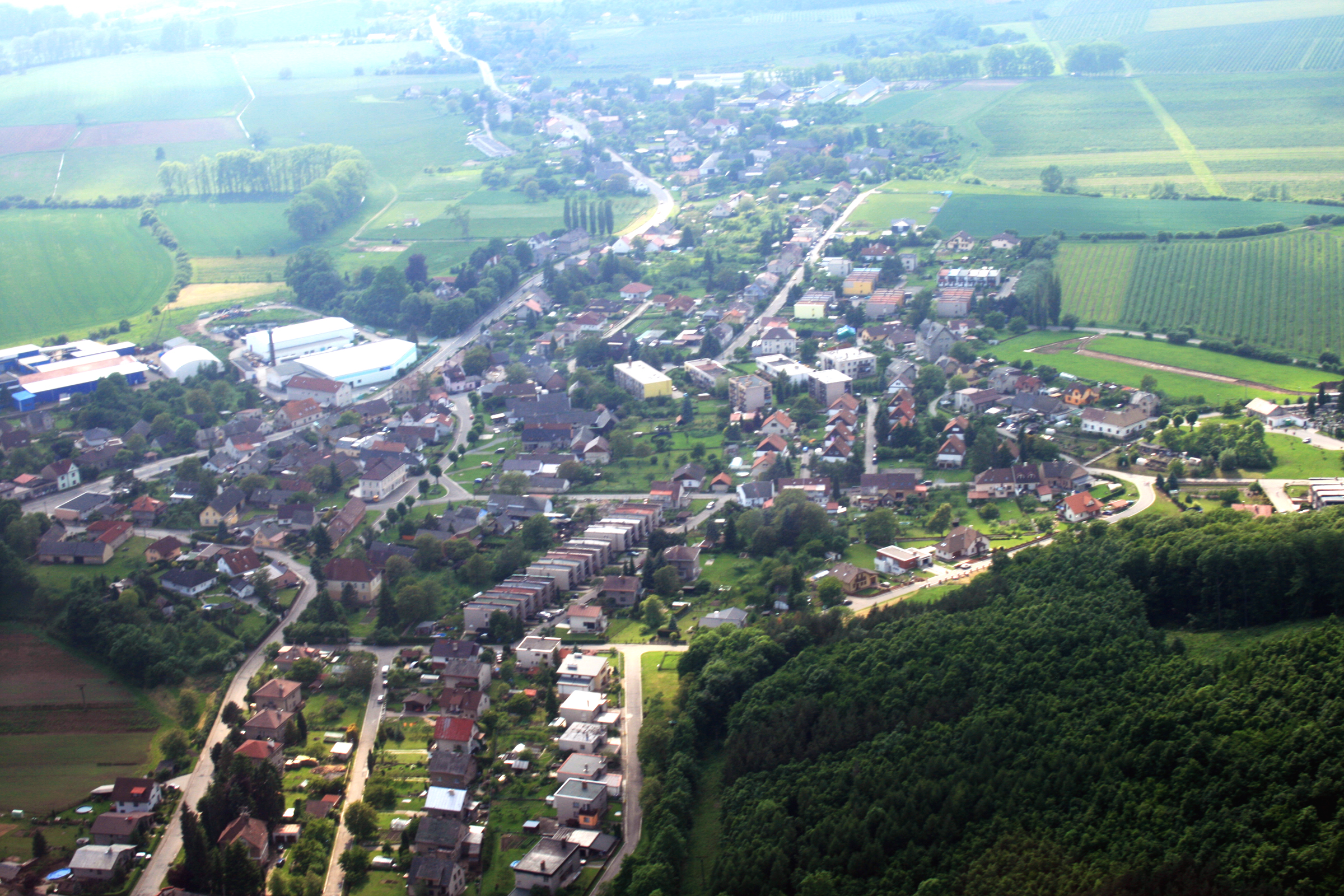 Western part of town Česká Skalice from air, eastern Bohemia, Czech Republic